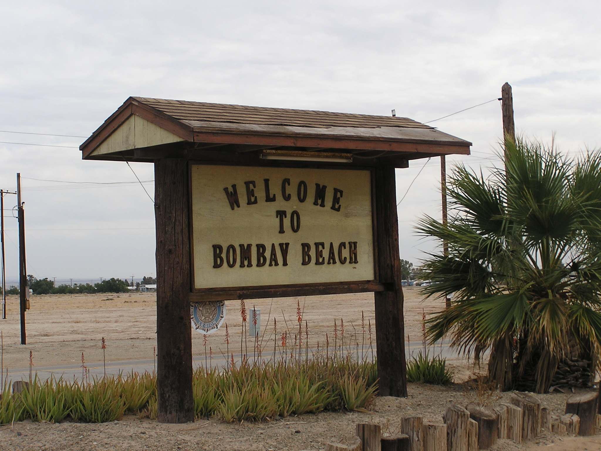 Sign for the city of Bombay Beach. Photo taken by Eric Polk - 2006